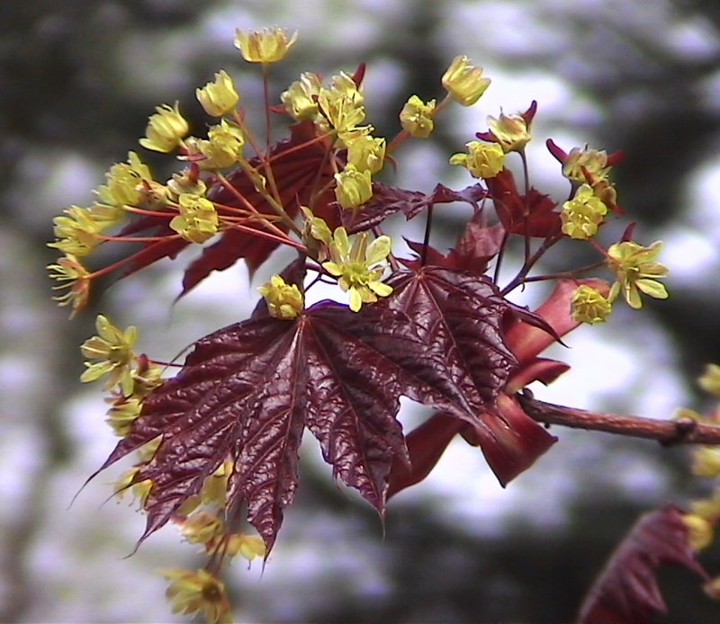 Kwiatostan klonu Acer platanoides 'Schwedleri'